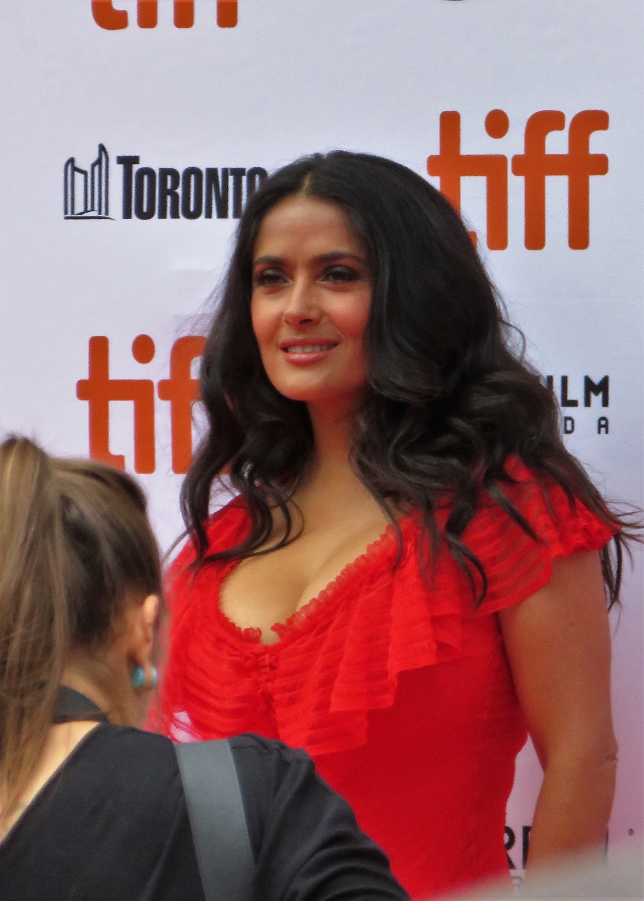 Salma Hayek at the premiere of Hummingbird Project, 2018 Toronto Film Festival